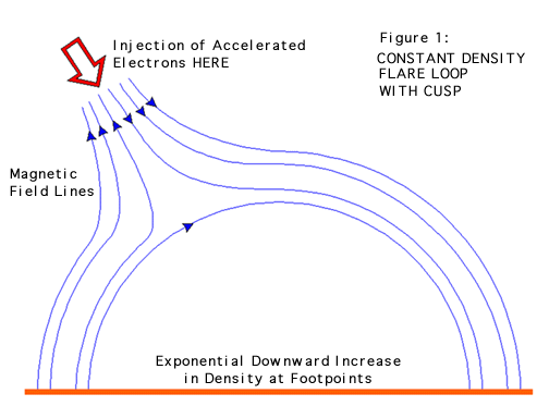 Loop of a solar flare observed by NASA's Yohkoh